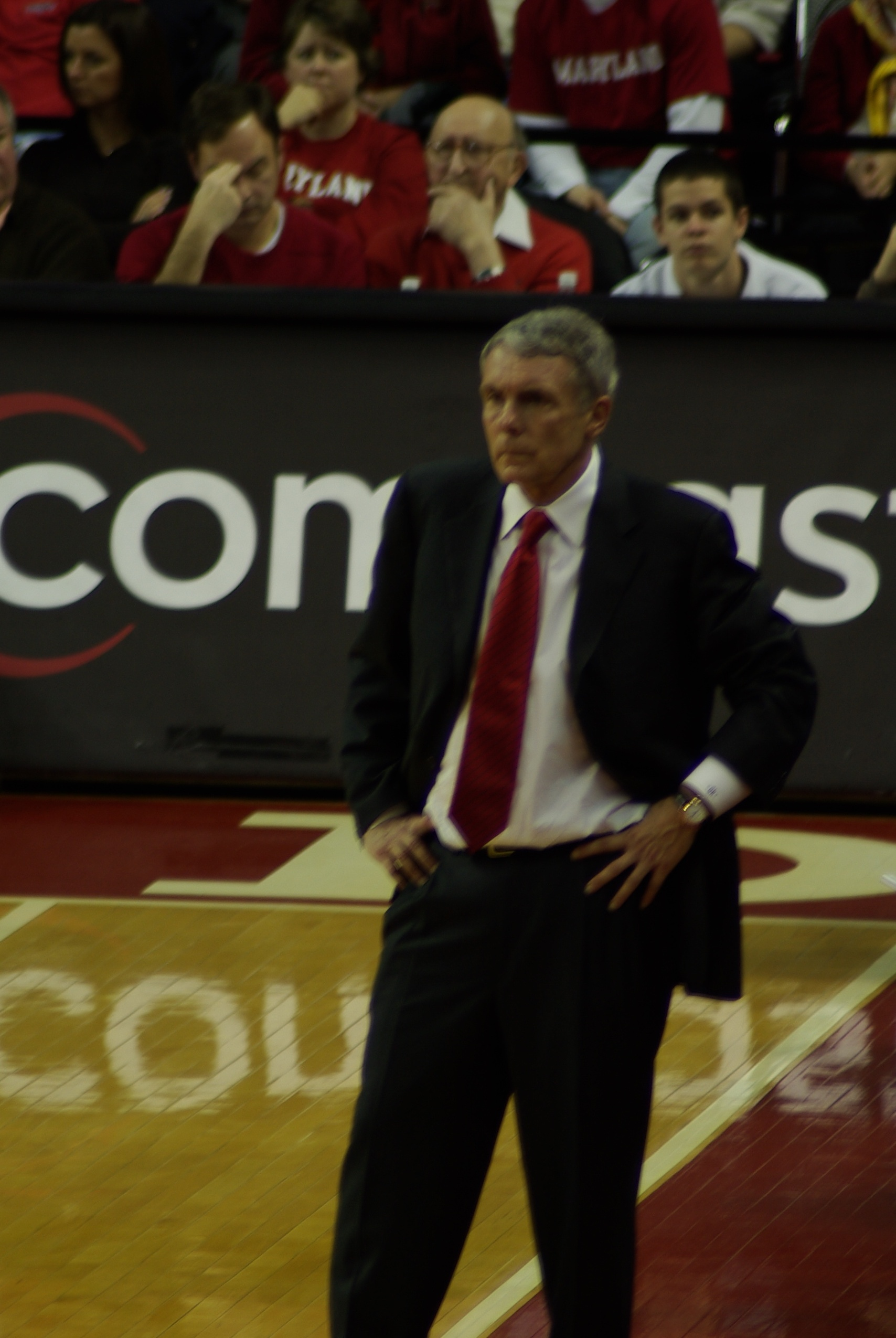 Gary Williams on the court during the Maryland-FSU game at the Comcast Center on February 16, 2008.